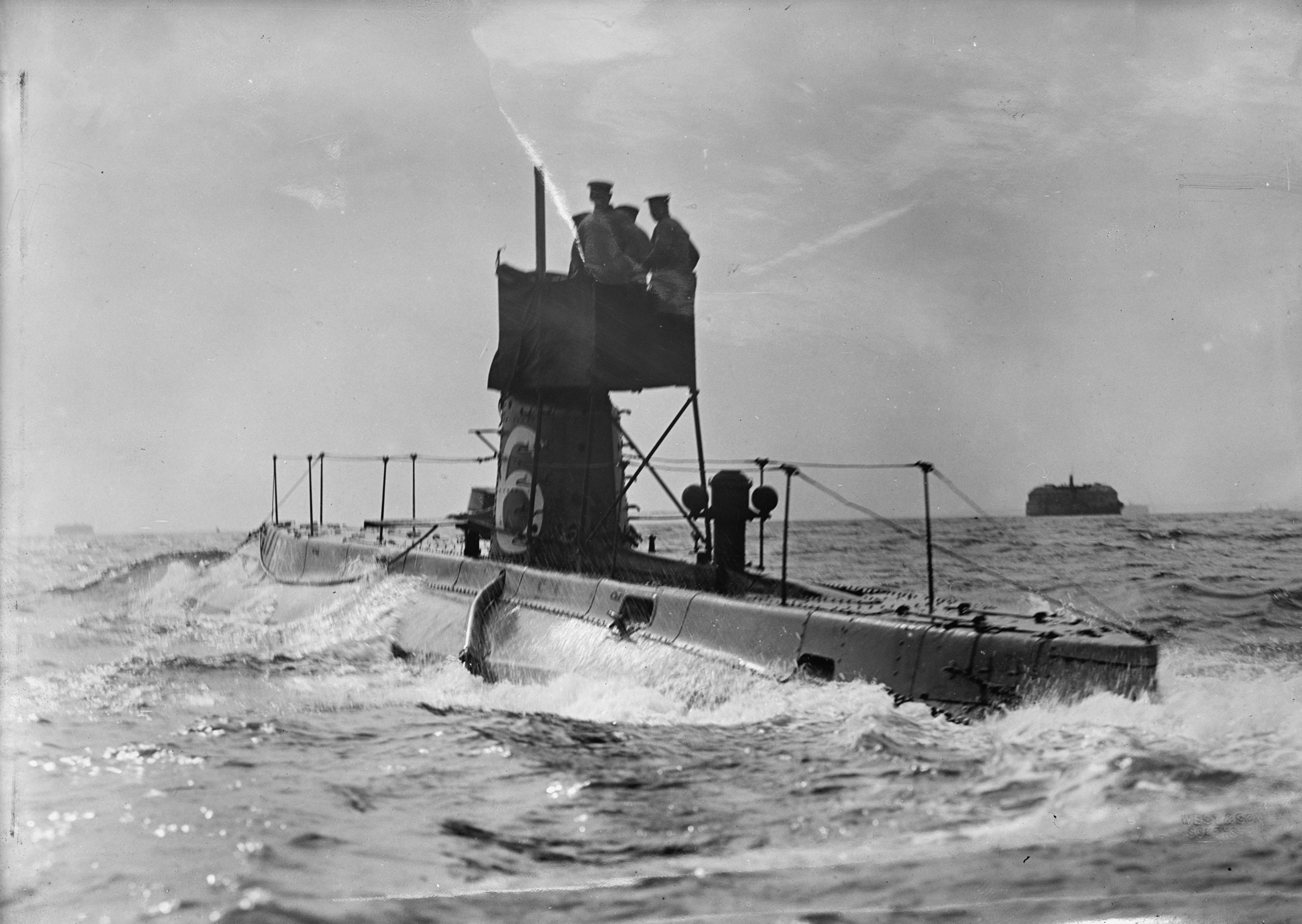 Photo of hms B6 in the solent with the solent sea forts in the background.